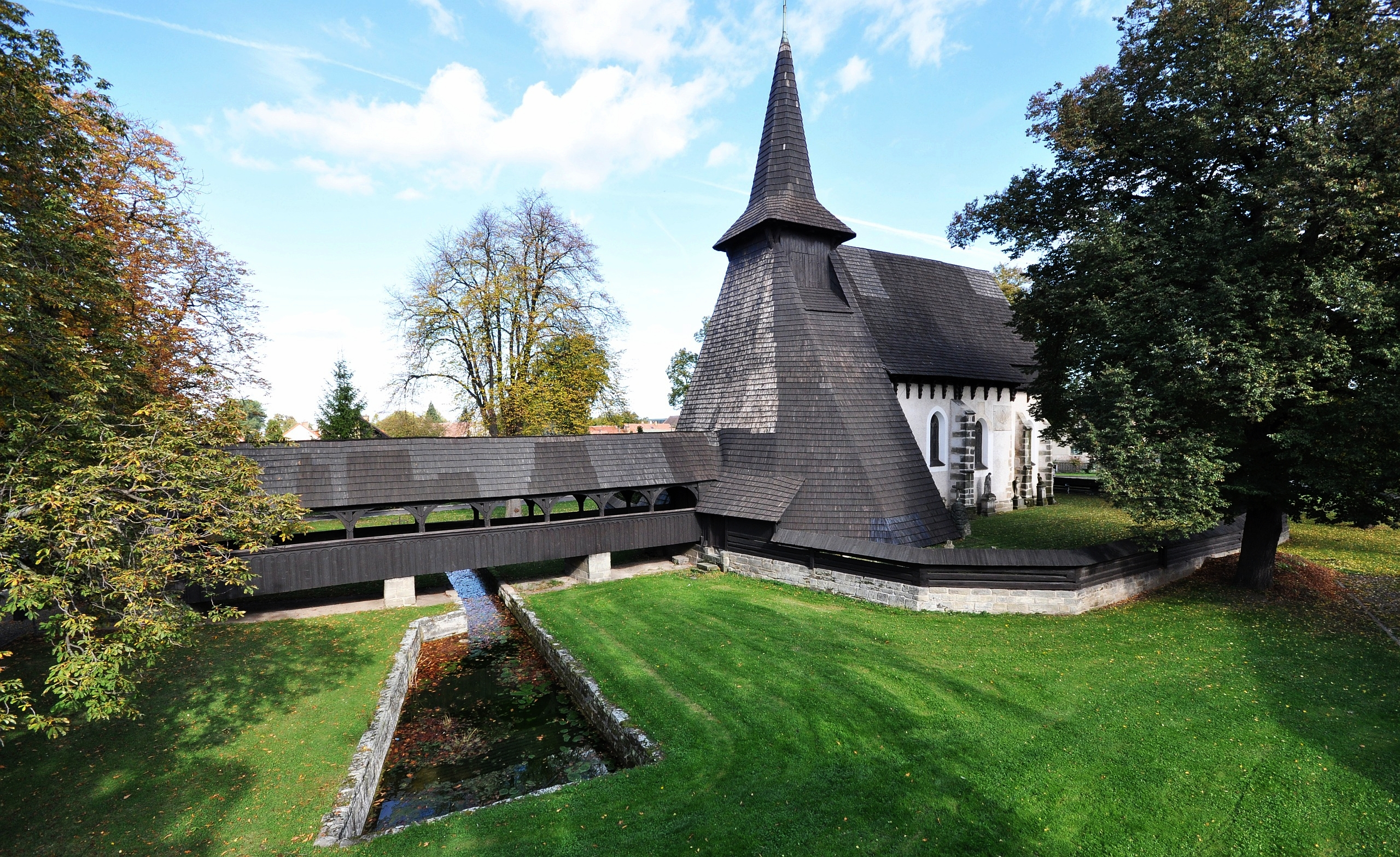 Church of Saint Bartholomew (Kočí)